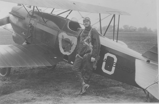 Catalog #: BIOJ00075 Last Name: Johnson First Name: Lt J. Thad Notes: Repository: San Diego Air and Space Museum Archive